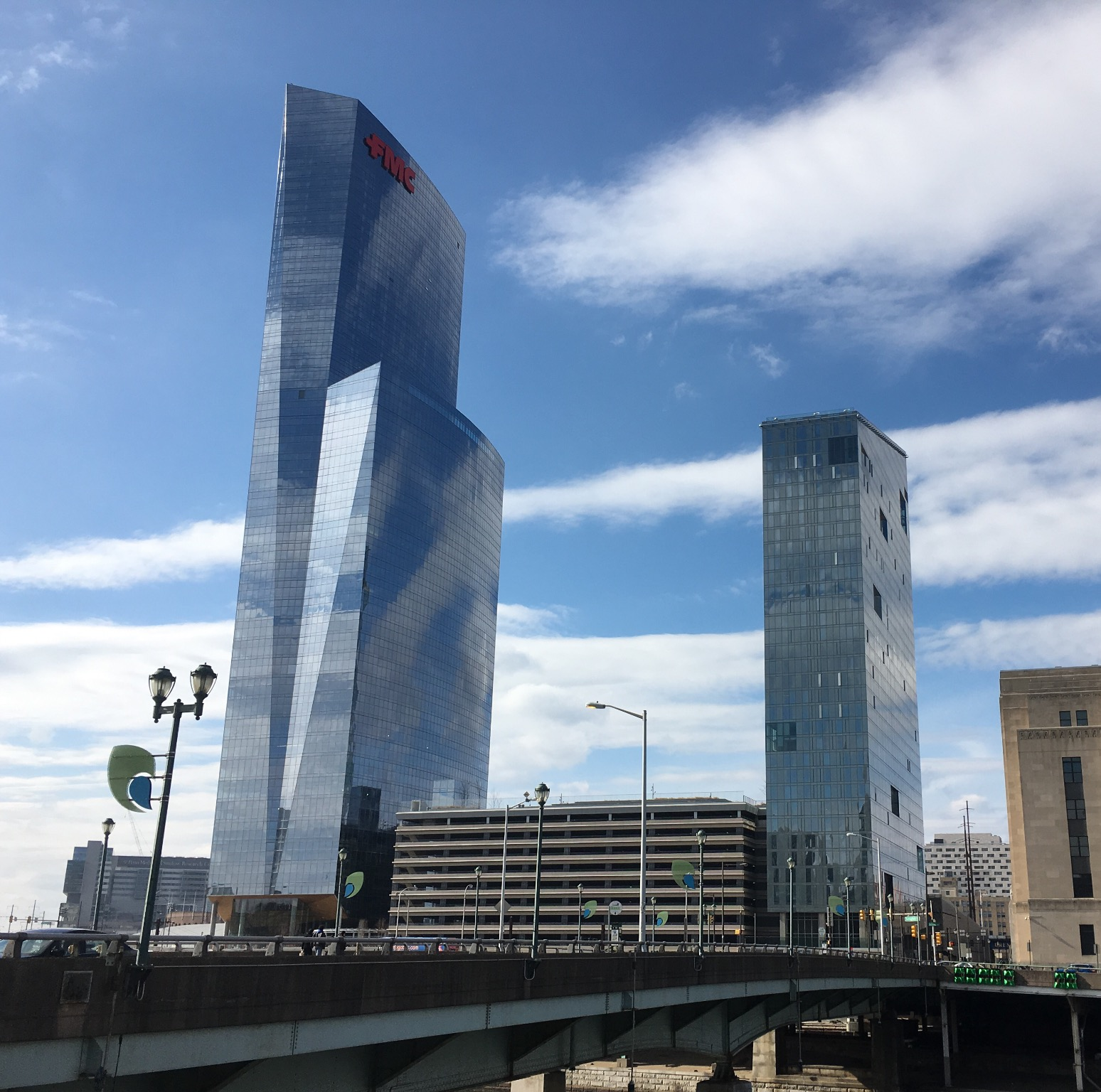 Evo and FMC Tower